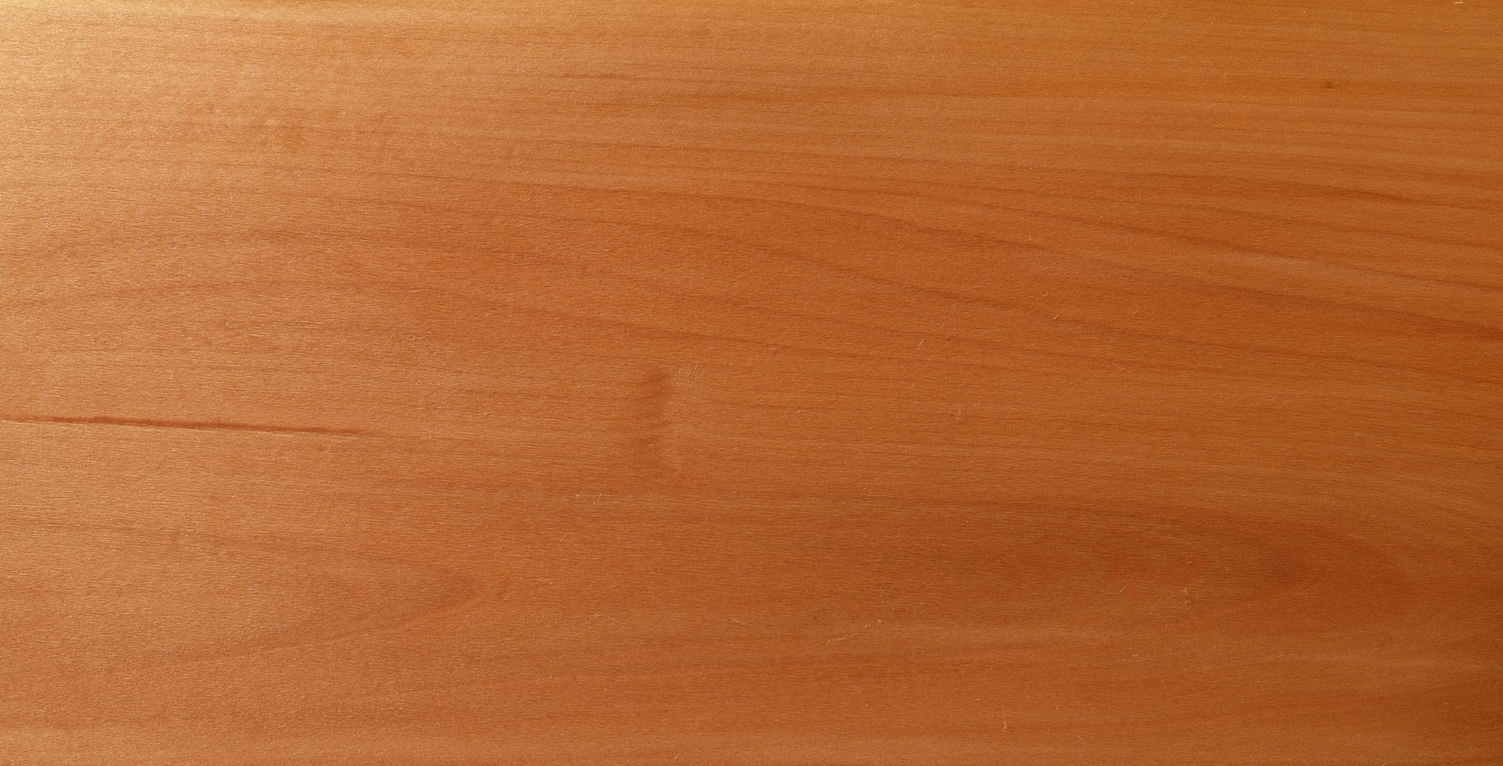 Wood of a Wild Service Tree (Sorbus torminalis)